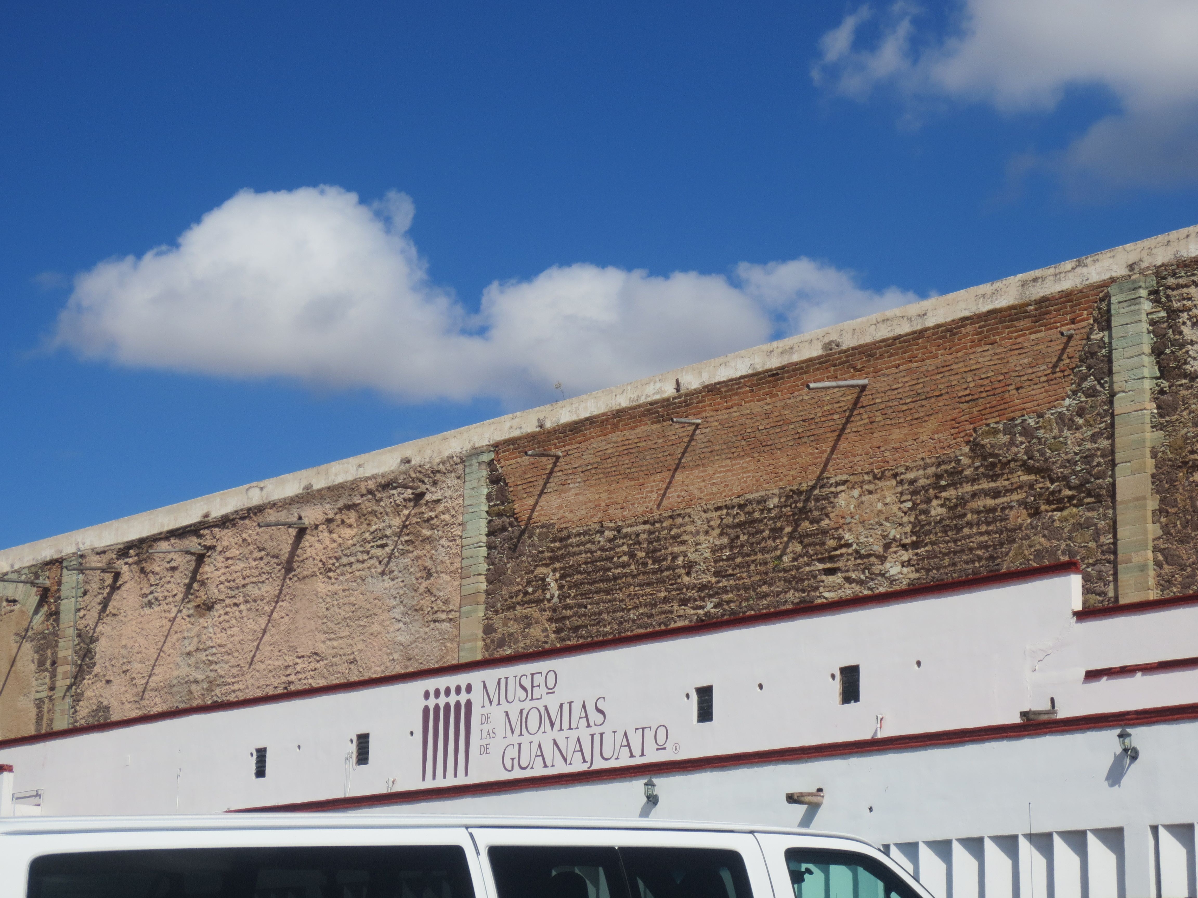 This is the entrace to the Museum of Mummies